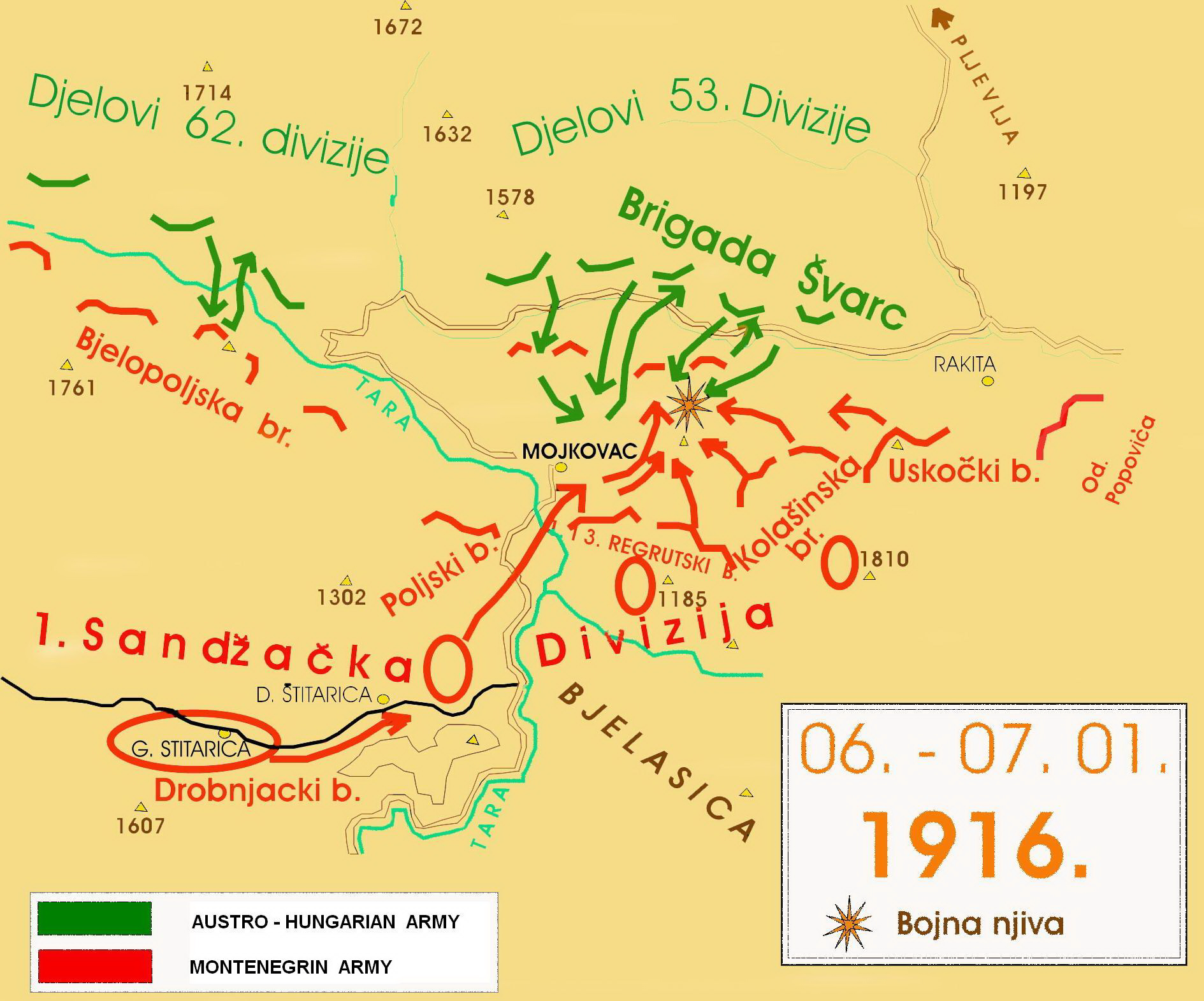 Battle near Mojkovac, 1916. (Was used: Milittary Enciclopedia - Beograd - 1973. - Part 5, page 558)